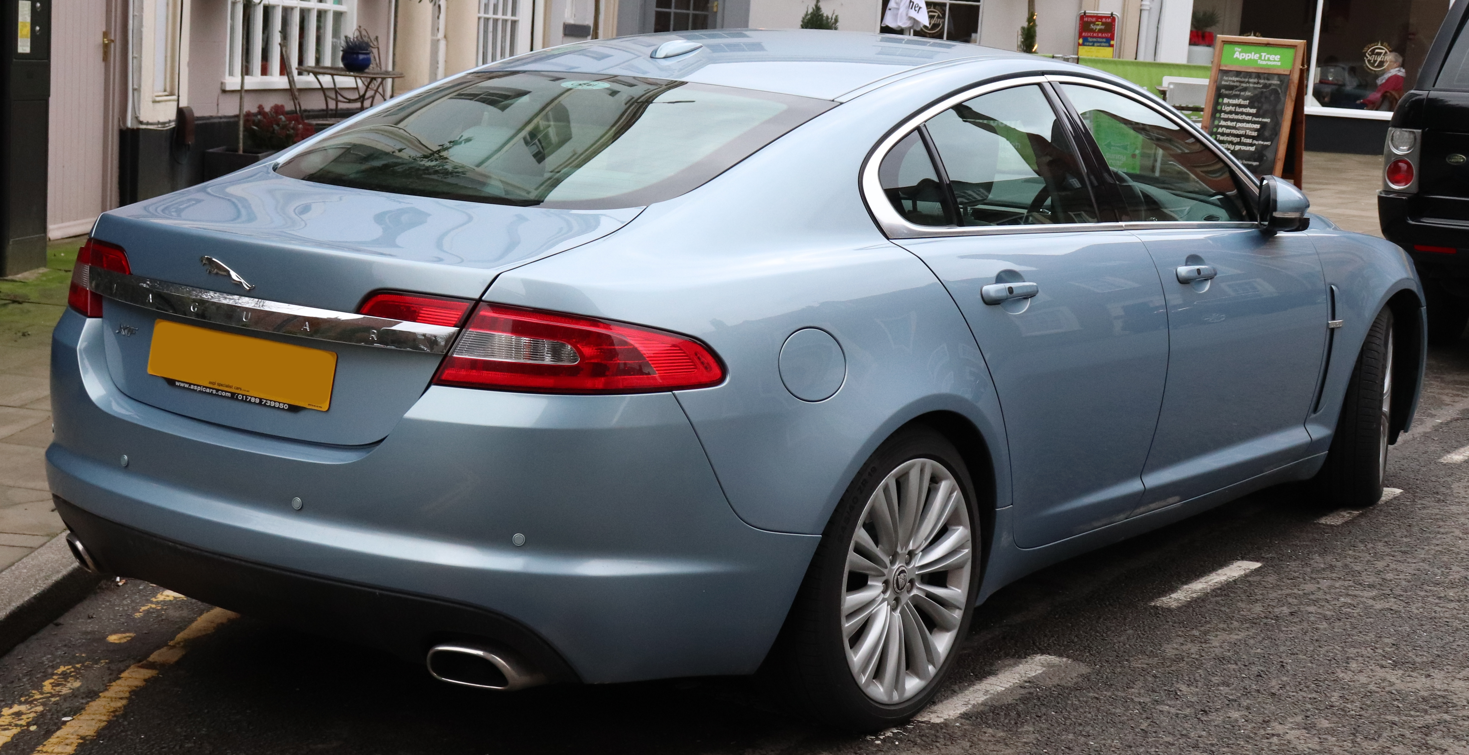 2010 Jaguar XF Premium Luxury V6 Automatic 3.0 Rear Taken in Warwick